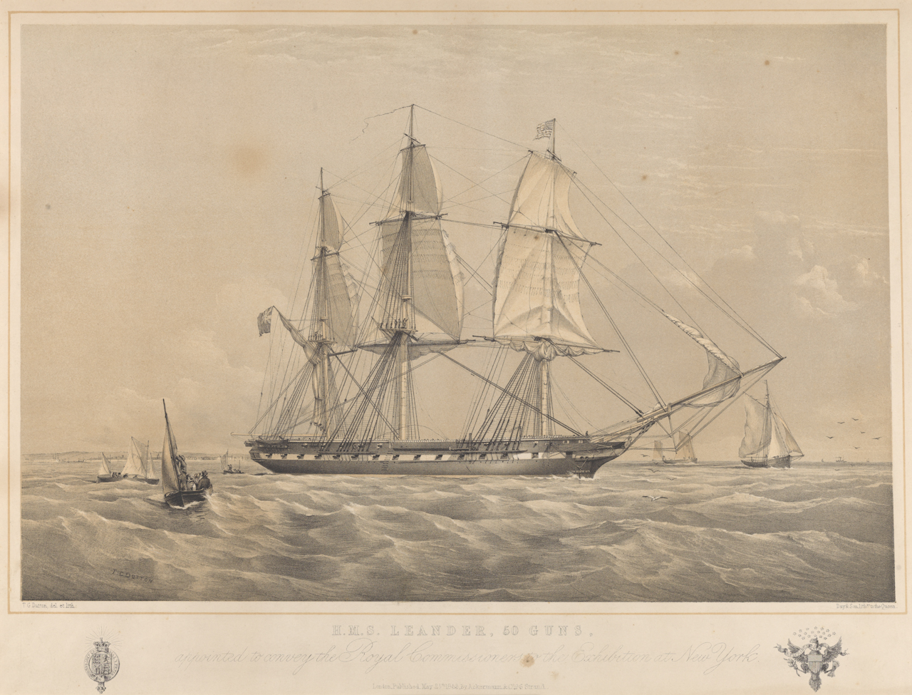 H.M.S. Leander, 50 guns, appointed to convey the Royal Commissioners to the Exhibition at New York Print H.M.S. Leander, 50 guns, appointed to convey the Royal Commissioners to the Exhibition at New York